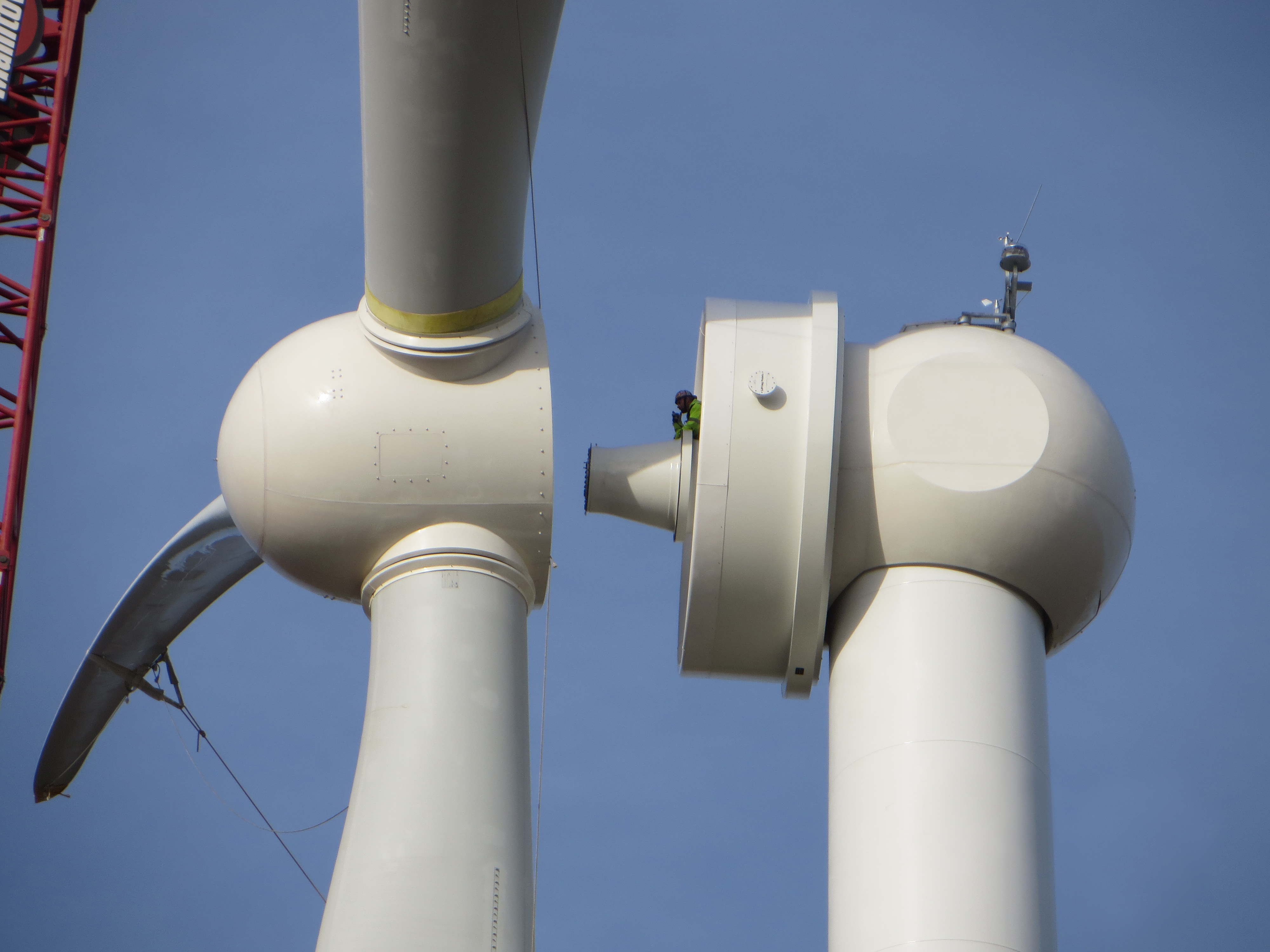 One Energy Wind for Industry permanent magnet direct-drive generator. The rotor of a gearless wind turbine being set.